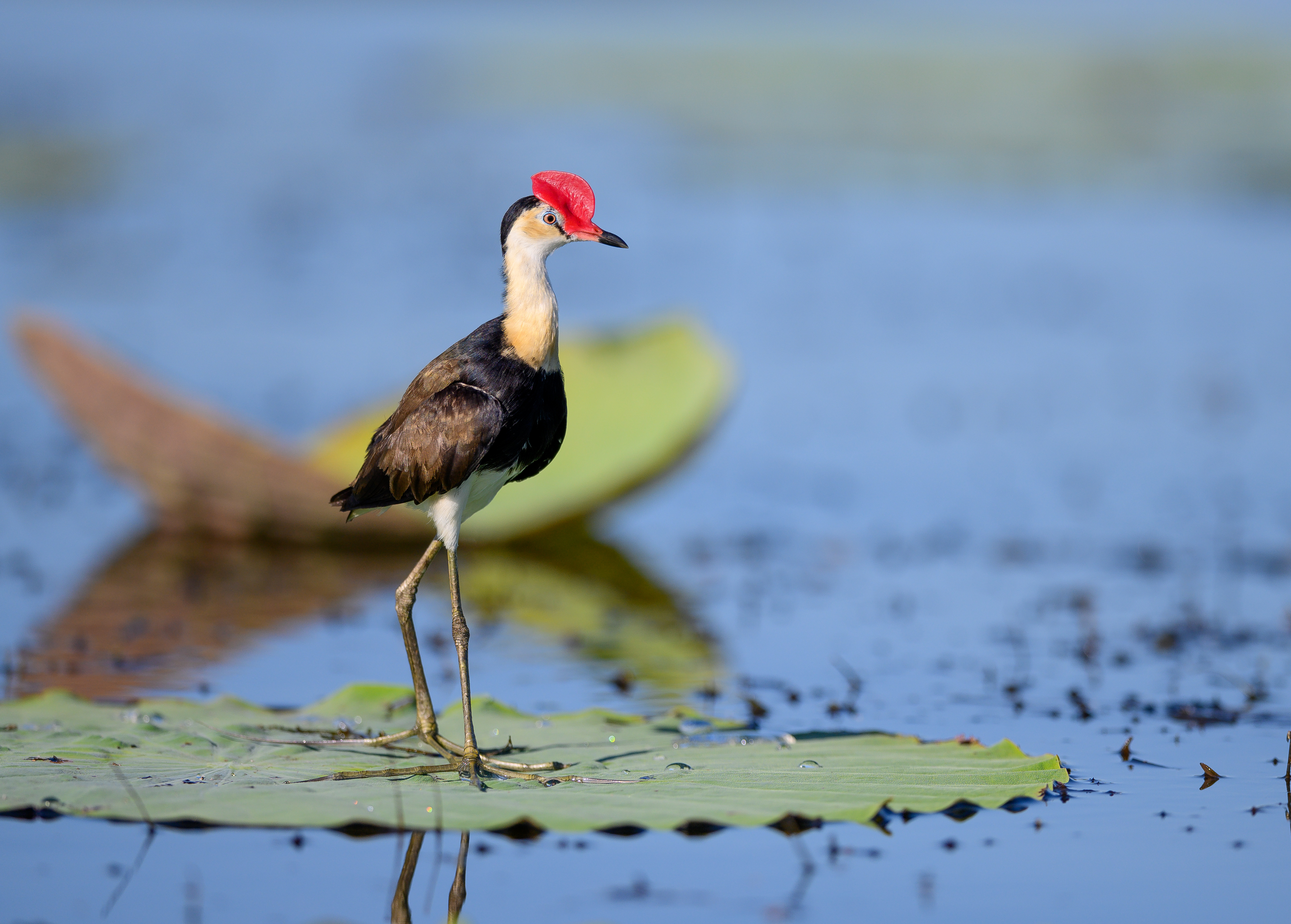 Comb-crested_Jacana